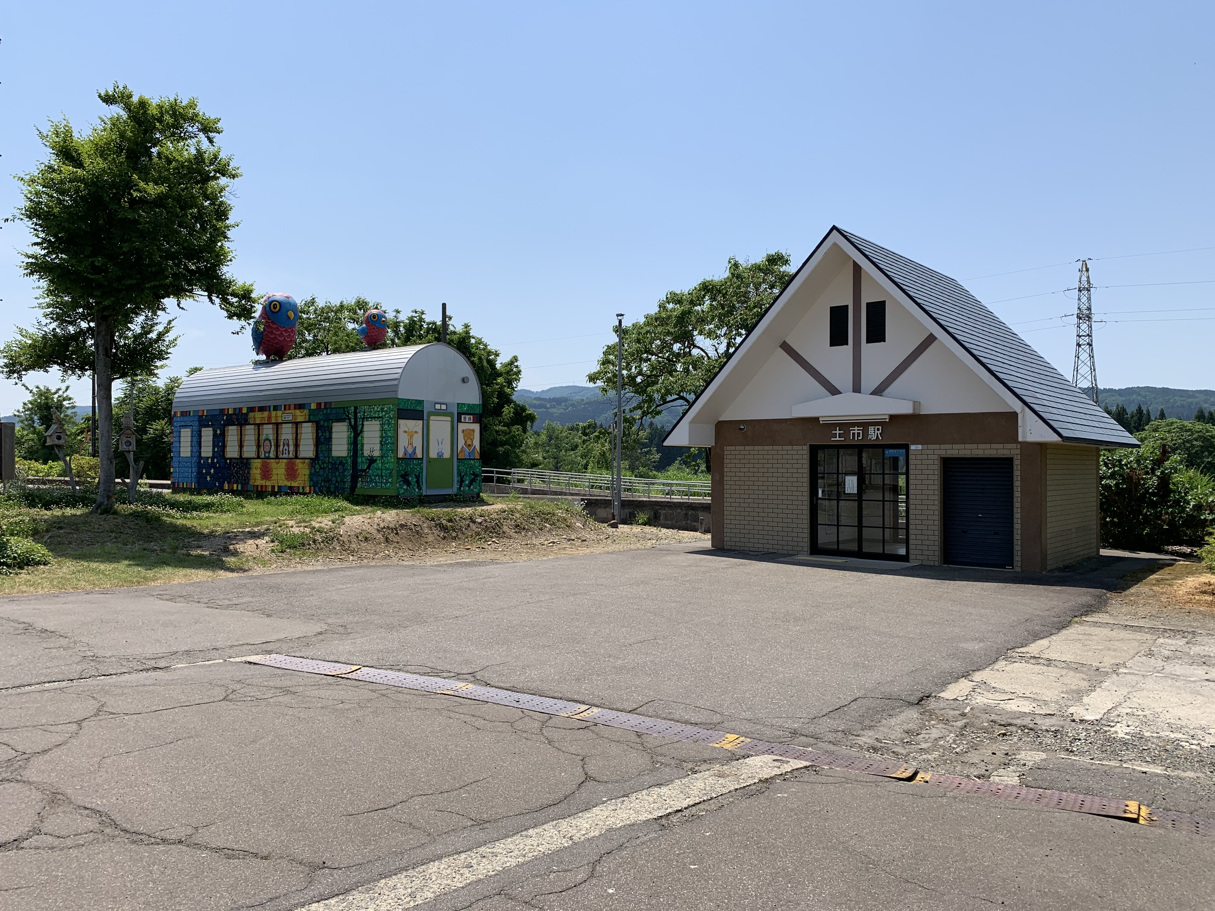 Doichi Station, East Japan Railway Company. Took photo in June 2020.